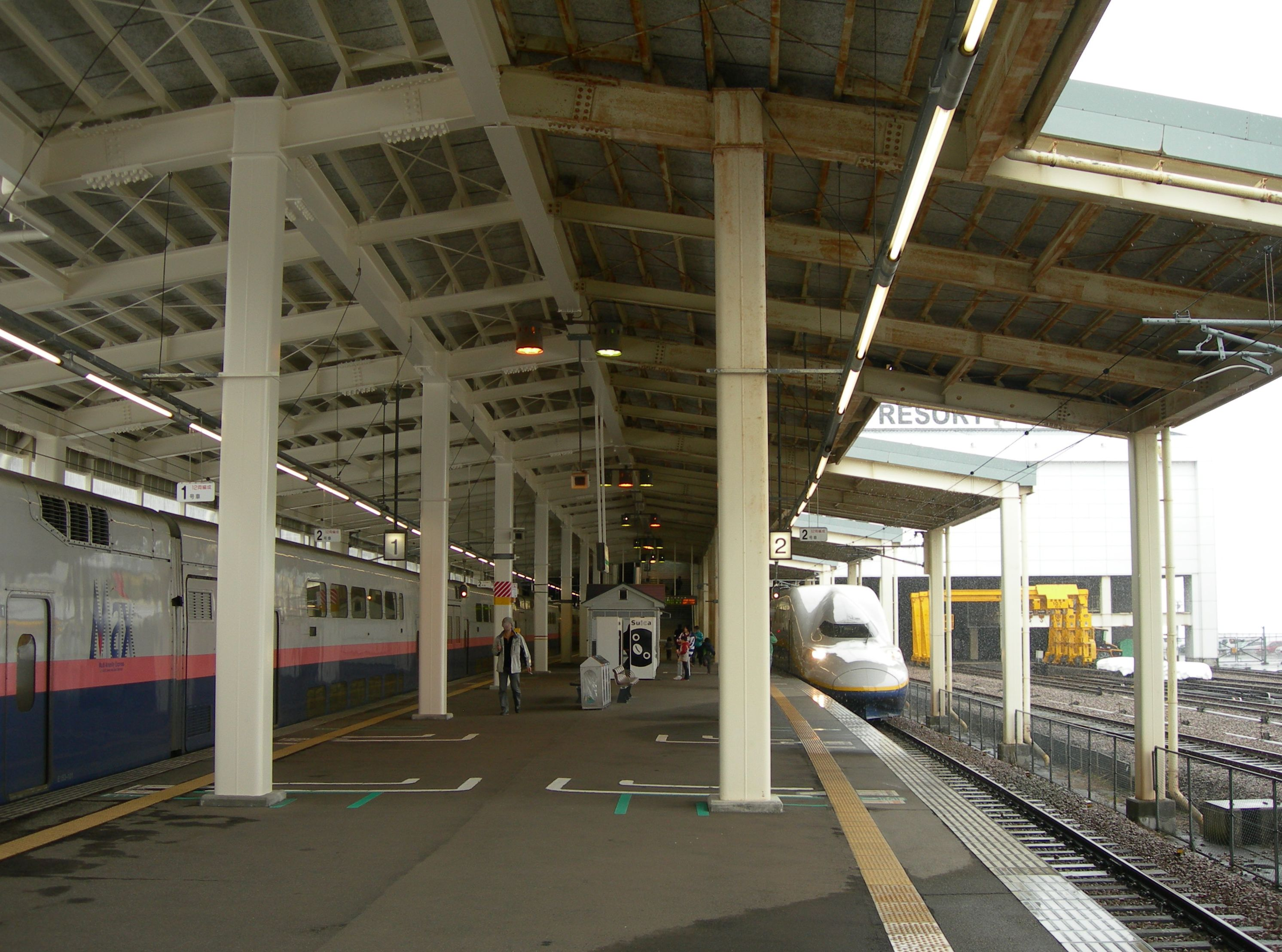 The platforms at Gala-Yuzawa Station in Niigata Prefecture, Japan